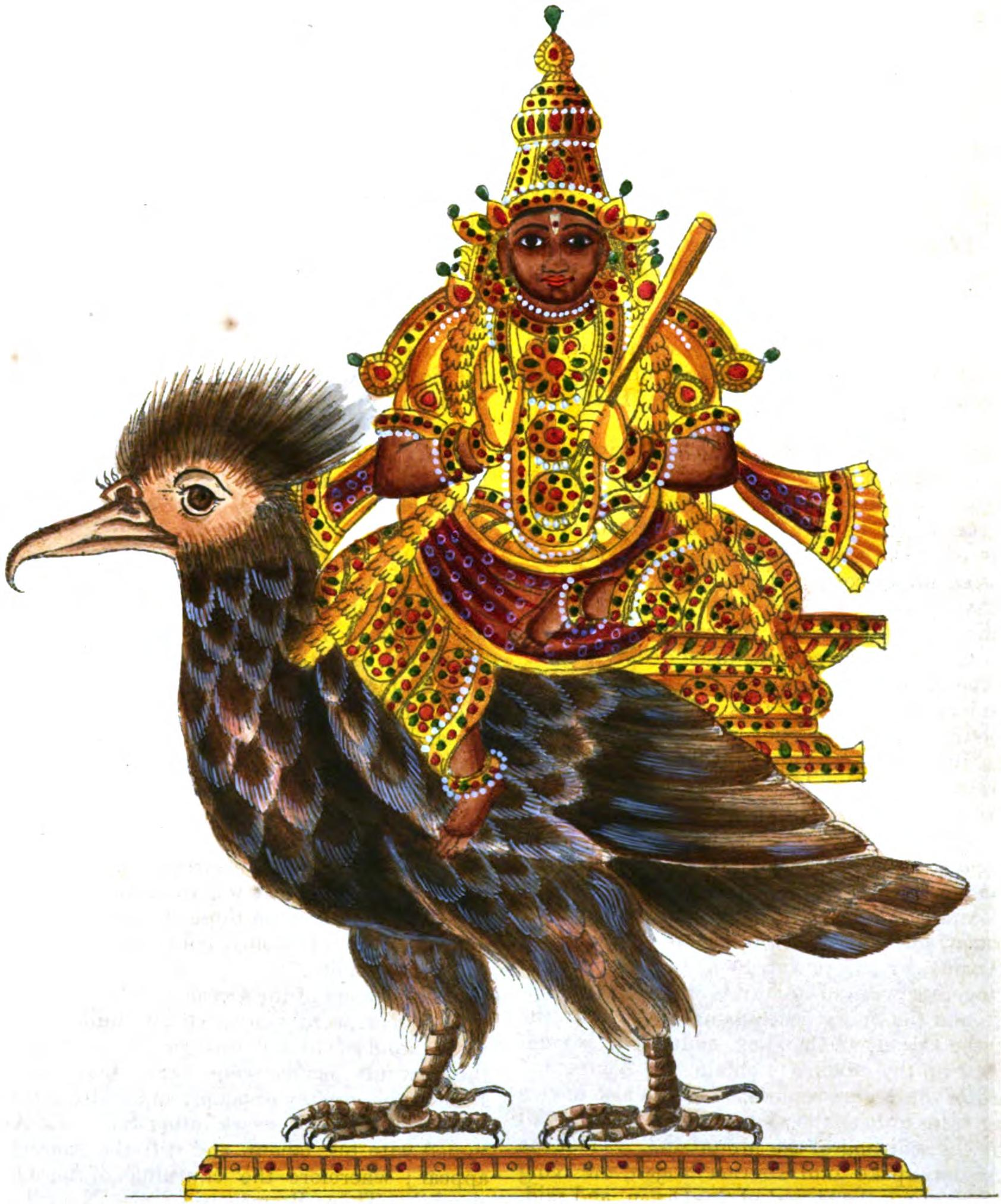 ketu